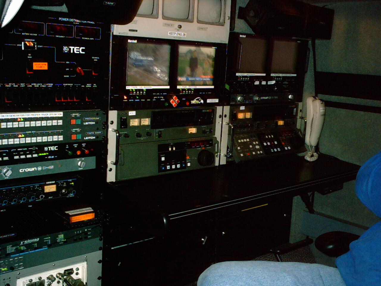 Equipment inside a KSTP-TV news van. Right monitor is showing broadcast KSTP TV, left monitor is showing police vehicles from camera on antenna mast.